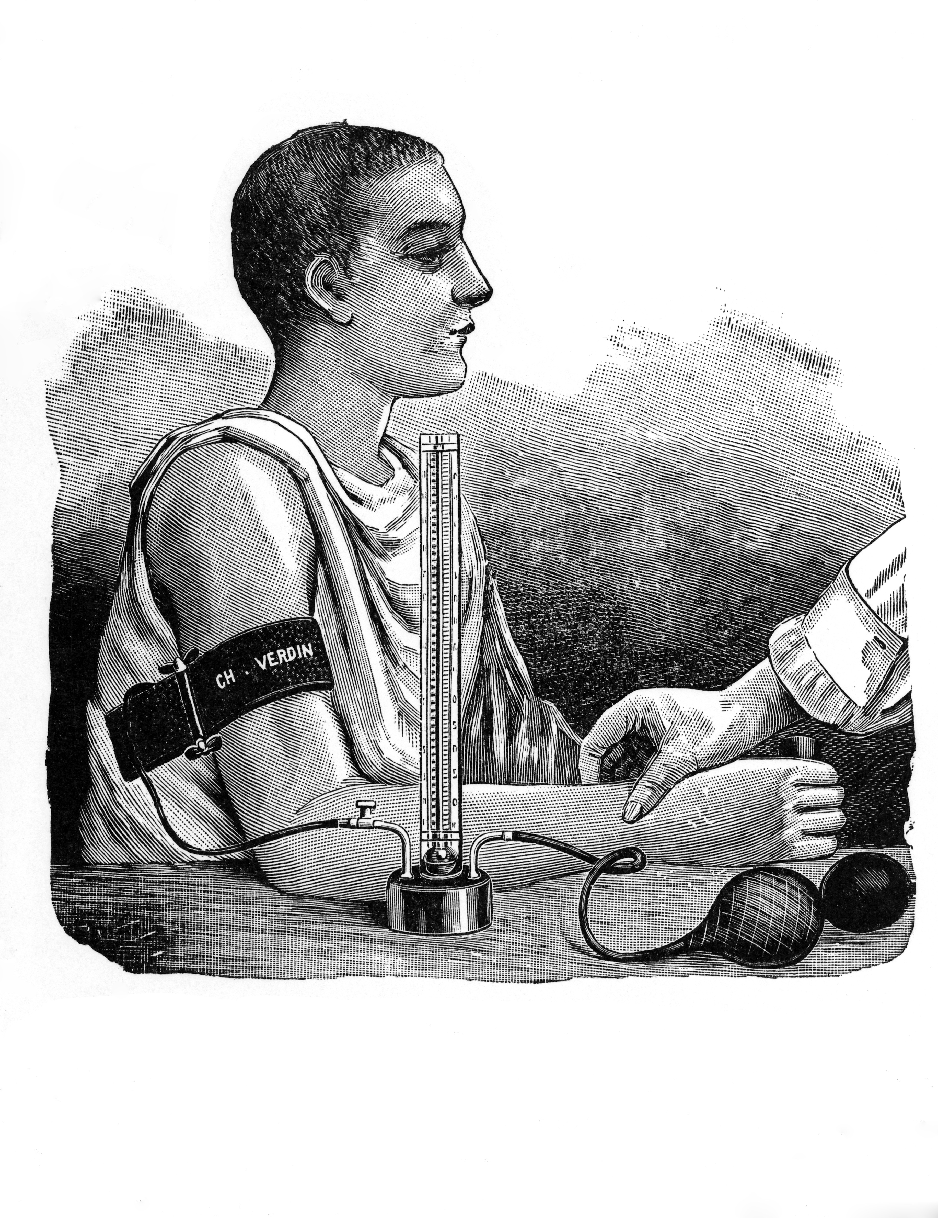 Riva-Rocci's spygmomanometer in use. Wellcome Images Keywords: Thomas Lander Brunton